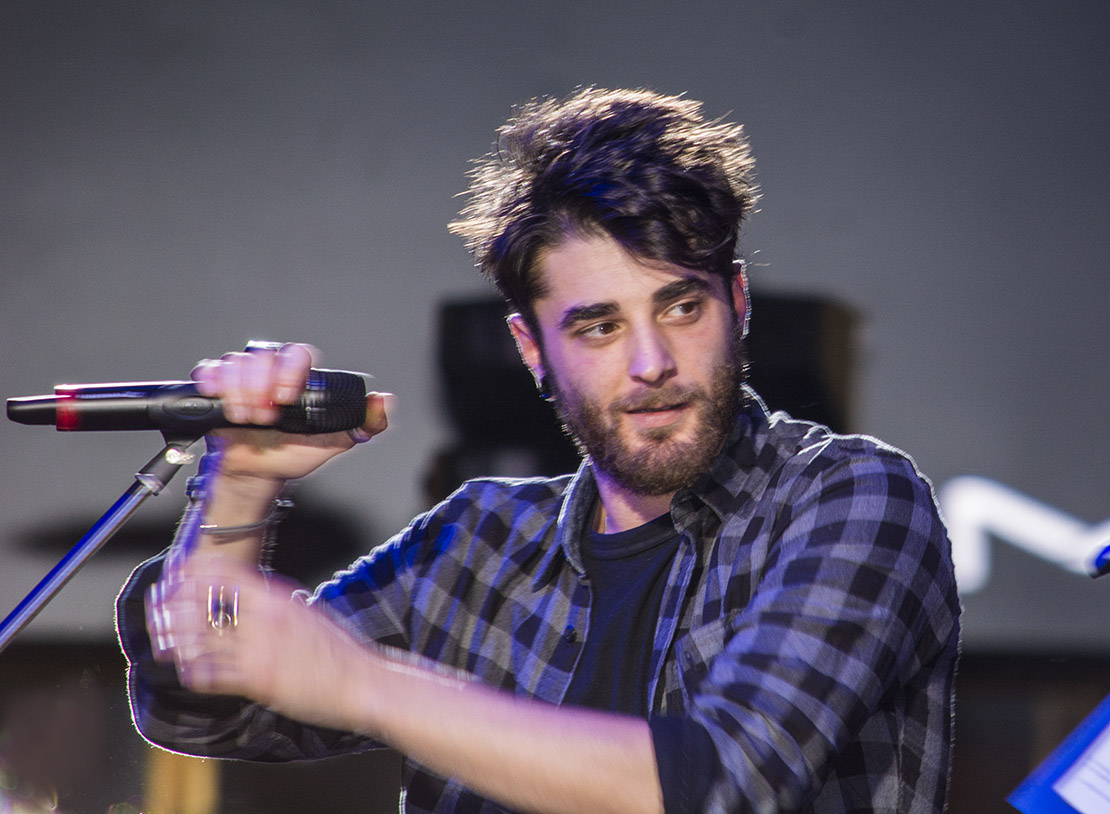 Giosada (Giovanni Sada) performing live in concert in Turin, Italy